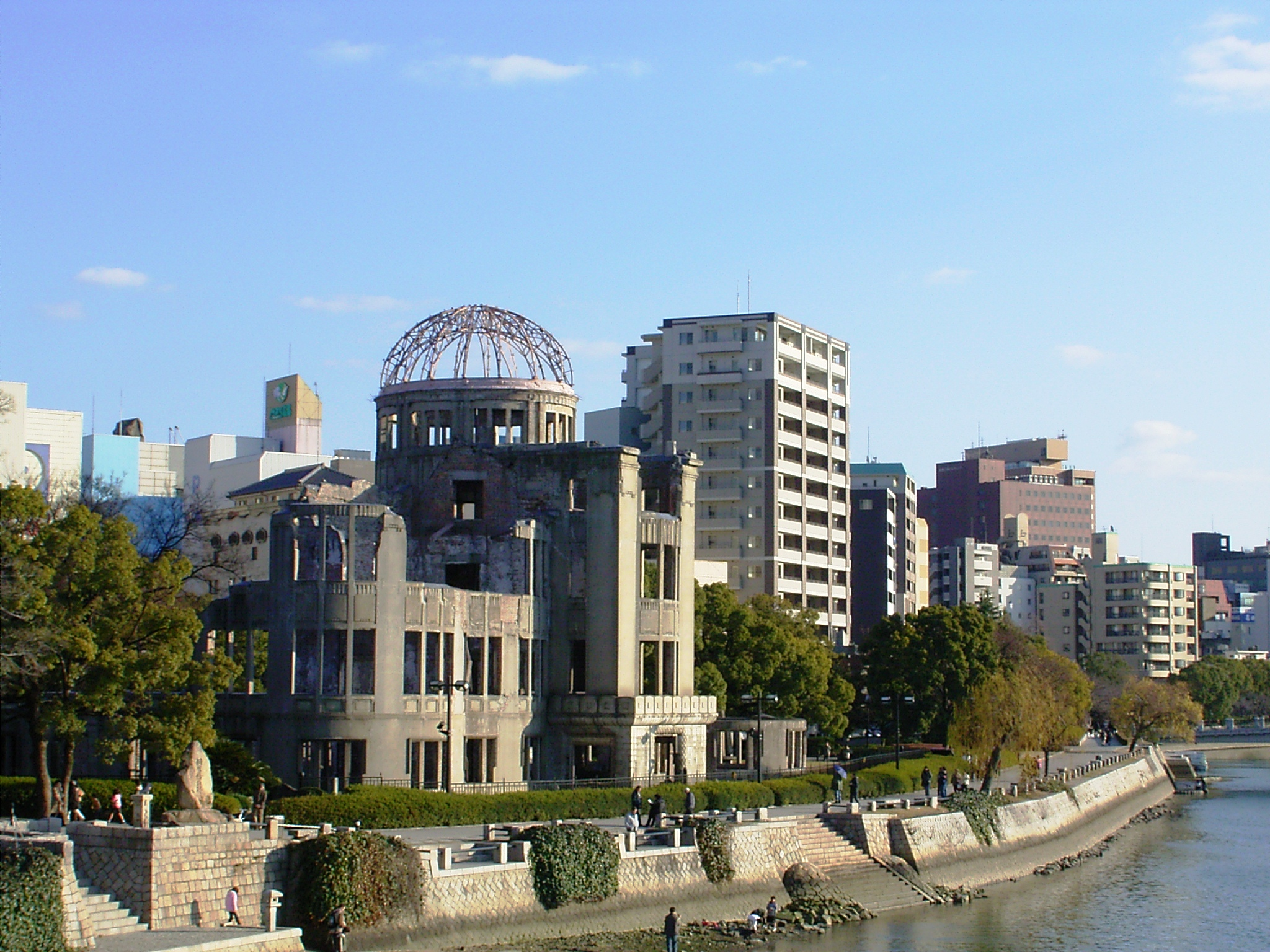 Atomic bomb dome (Genbaku Dome), Hiroshima, Japan.